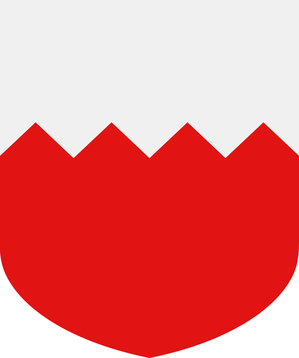 Anguisola shield